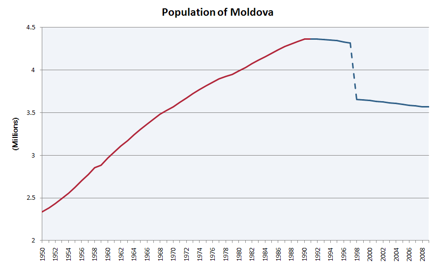 Population of Moldova since 1950. Data according to The National Bureau of Statistics of Moldova and Demoscope. Note: Data after 1997 doesn't include regions under the control of the Pridnestrovian Moldavian Republic.